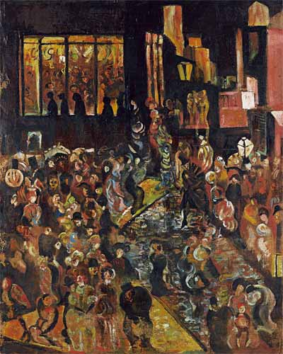 Man of the crowd. Canvas, oil. The painting is located in the Tretyakov Gallery in Moscow, Russia.